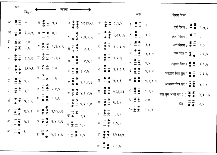 Brail script Konkani Vishwakosh